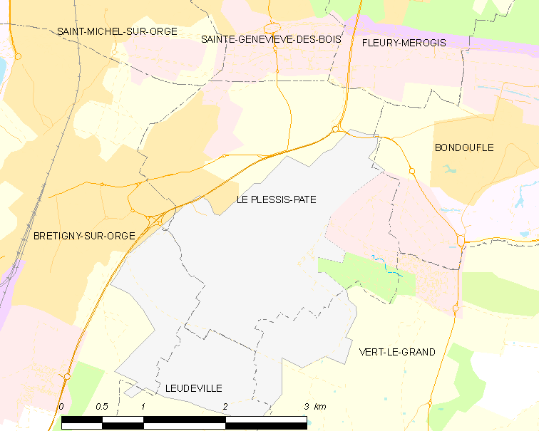 Map of French municipality Le Plessis-Pâté